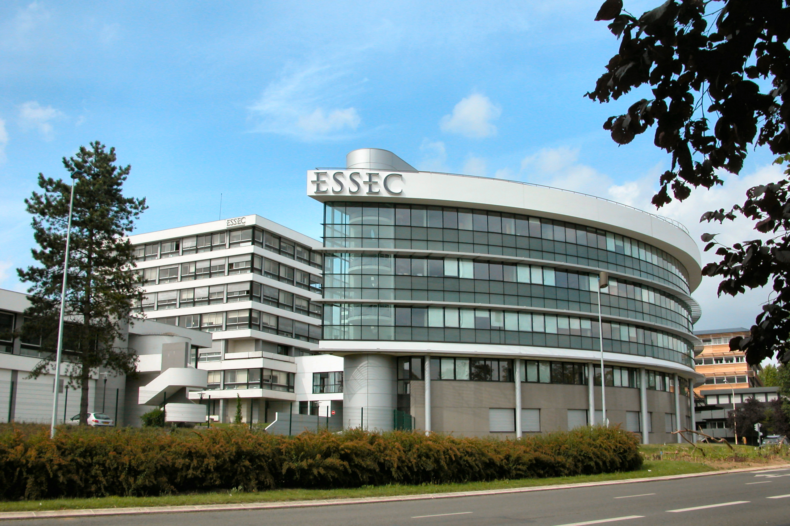 Photograph by Renaud d'Avout d'Auerstaedt ( registered wikipedian (rdavout). Date taken: 2006-06-04. Place taken: France - Île-de-France - Val d'Oise - Cergy-Pontoise. Description: ESSEC business school campus in France. Keywords: ESSEC; Cergy-Pontoise.